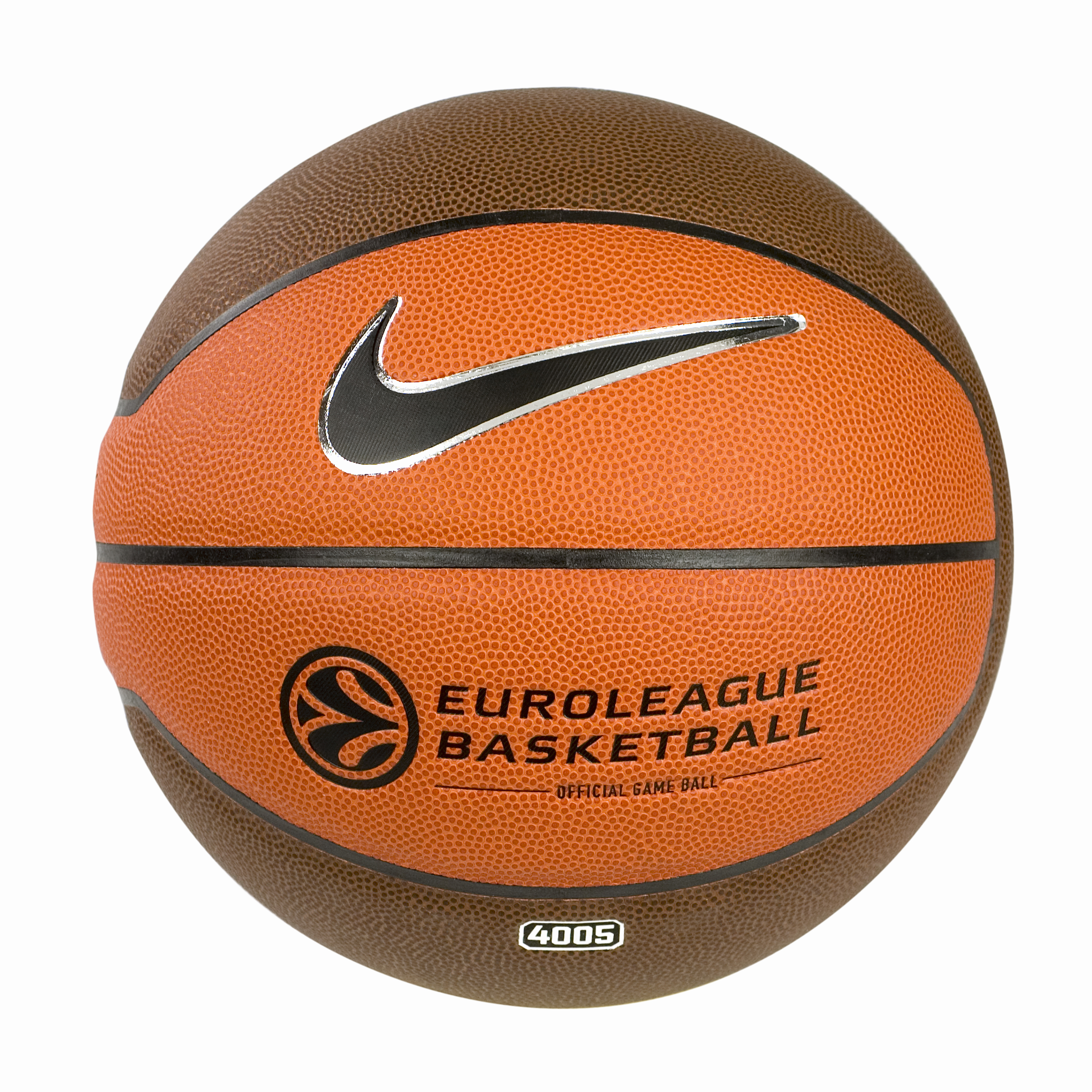 Nike 4005, Euroleague basketball